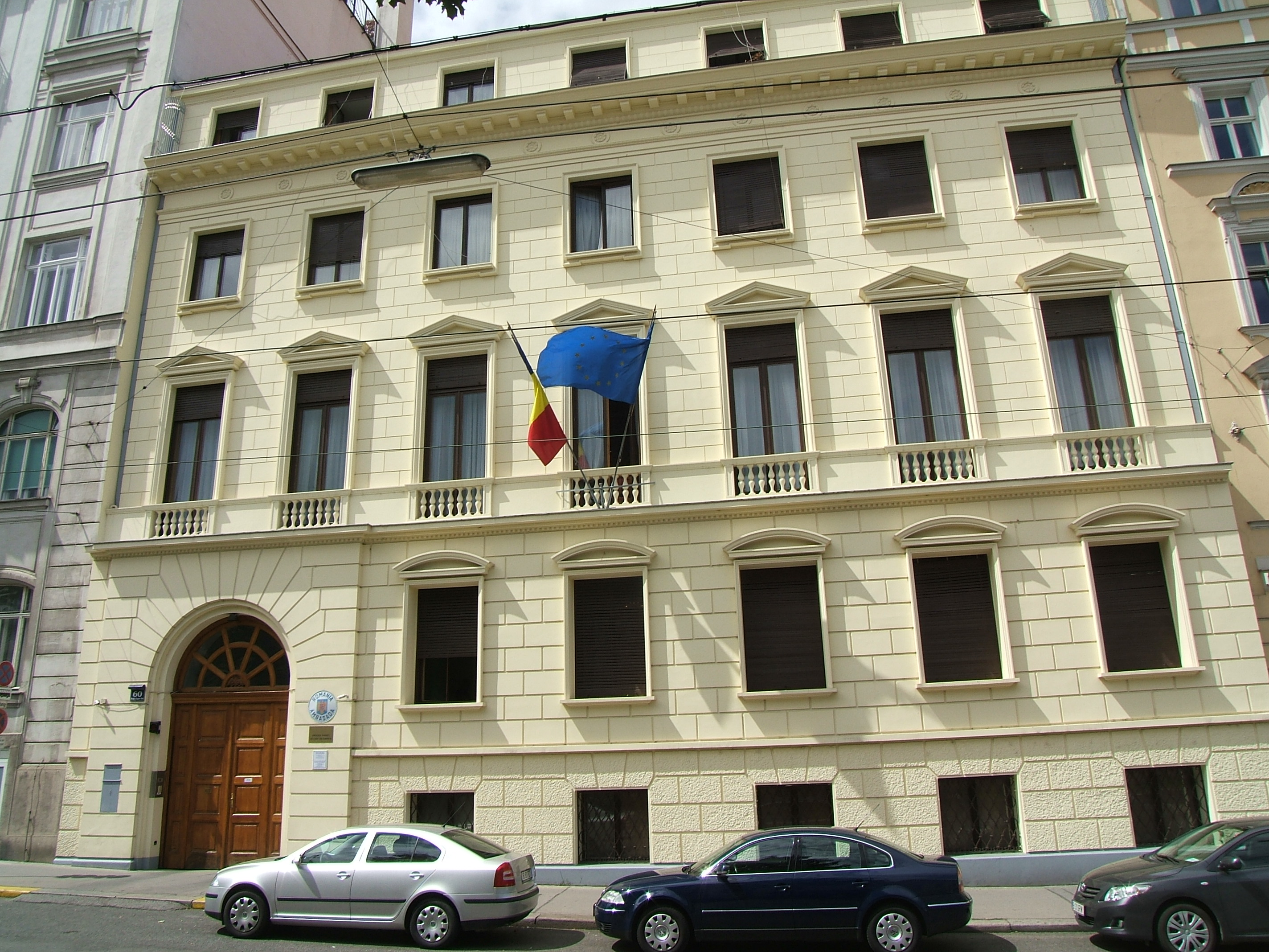 Palais Landau in Vienna 4th district Prinz Eugen Straße 60, Embassy of Rumania